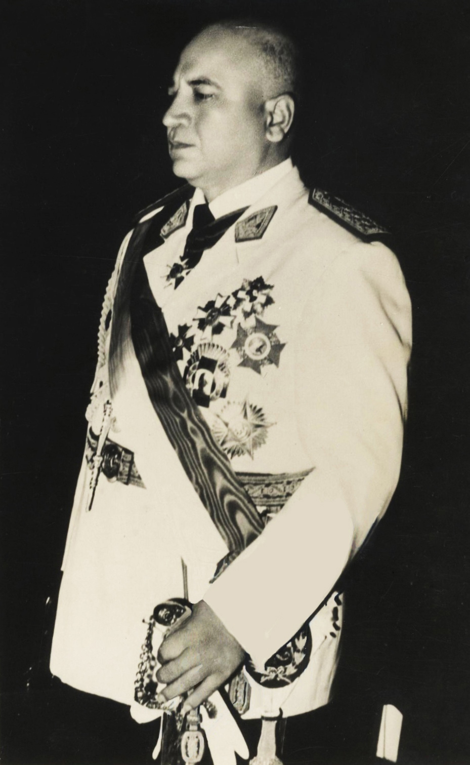 Ricardo Perez Godoy - President of Peru 1962-1963